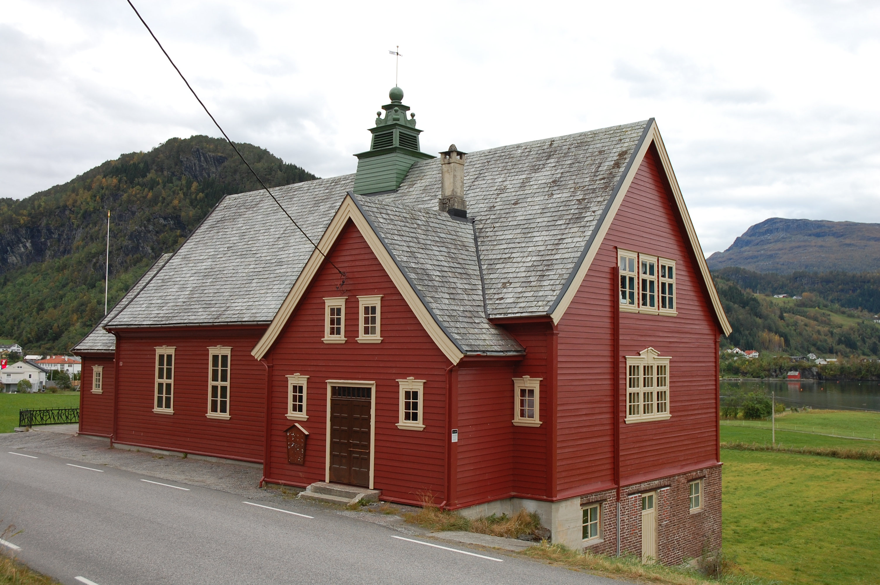 Haugatun, Strandebarmsvegen 314, Kvam herad, Norway